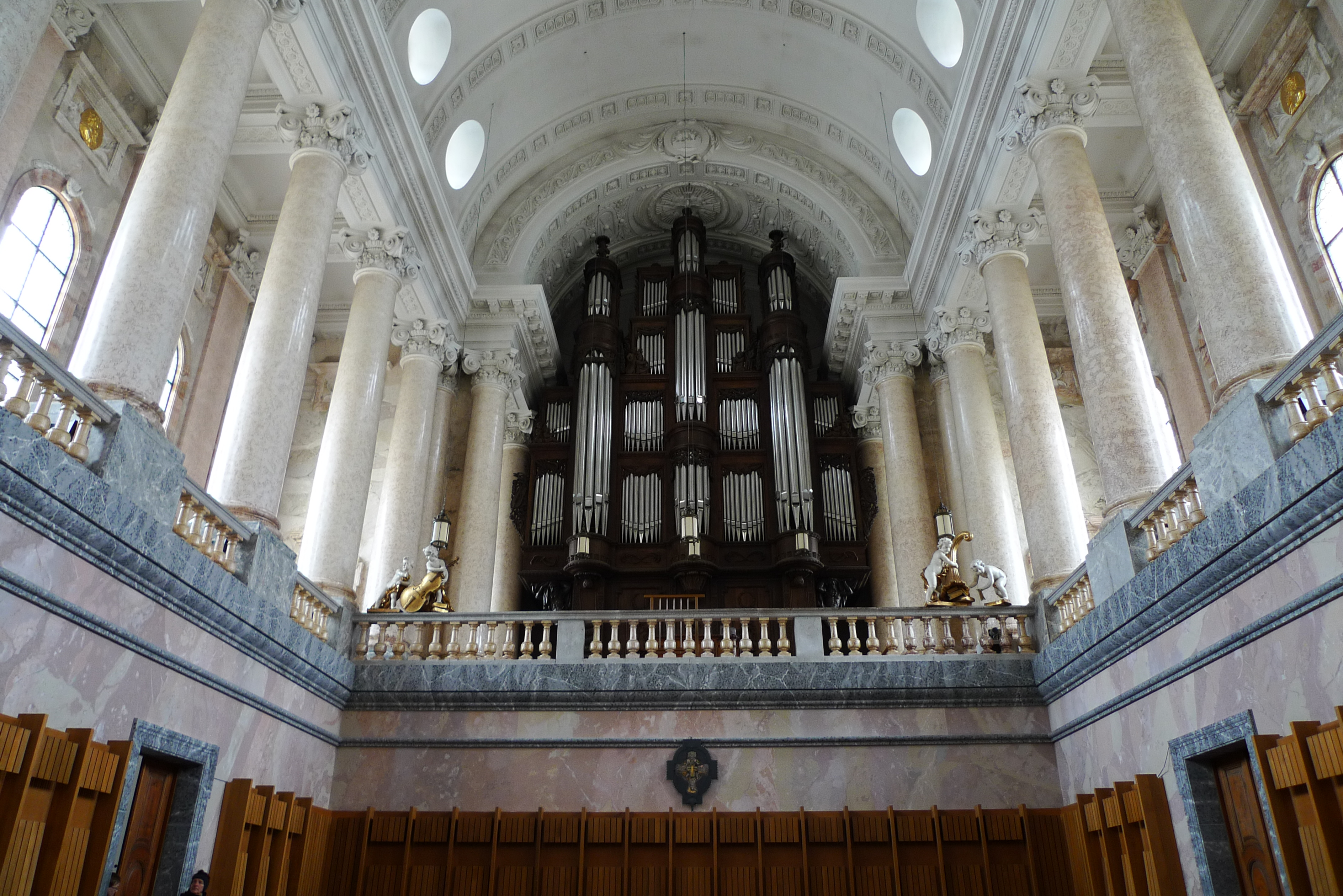 Majestic Church Organ, Dom St. Blasien, Germany